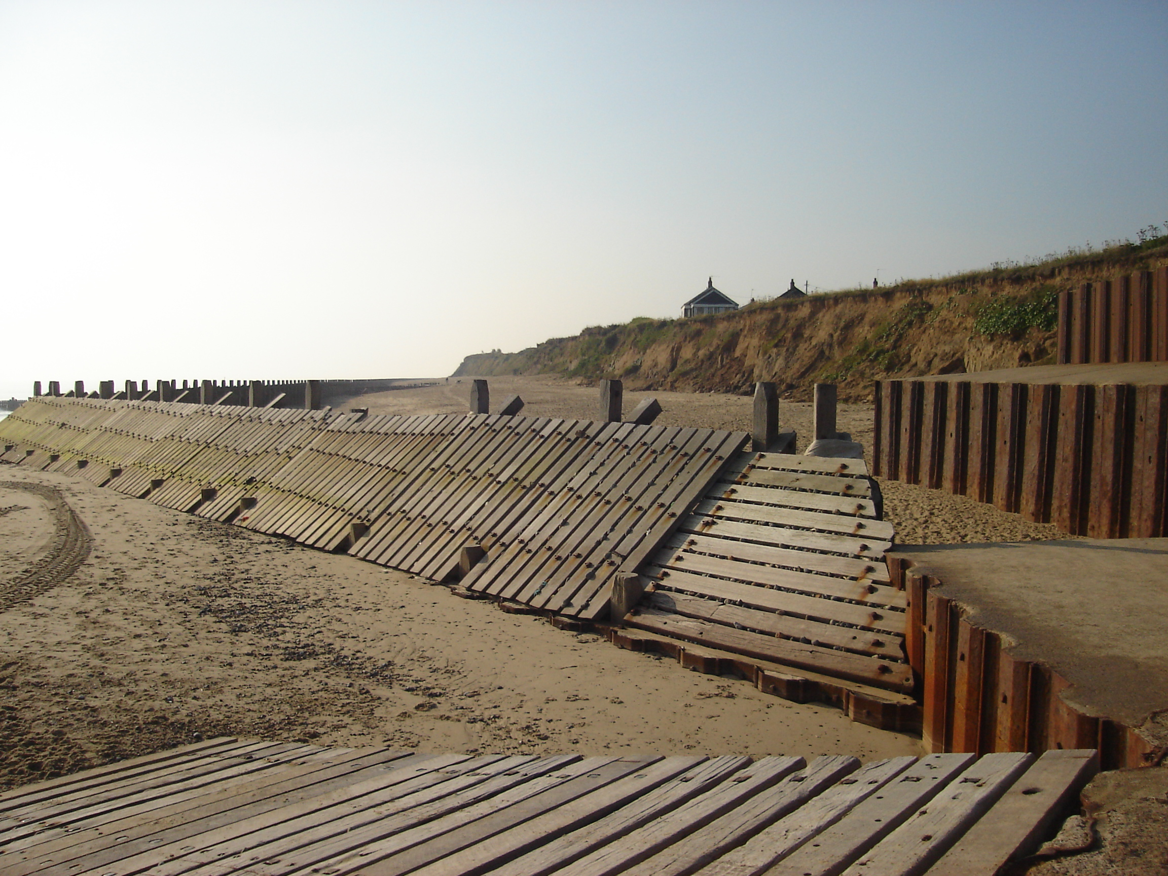 Picture of revetment close to Walcott, Norfolk